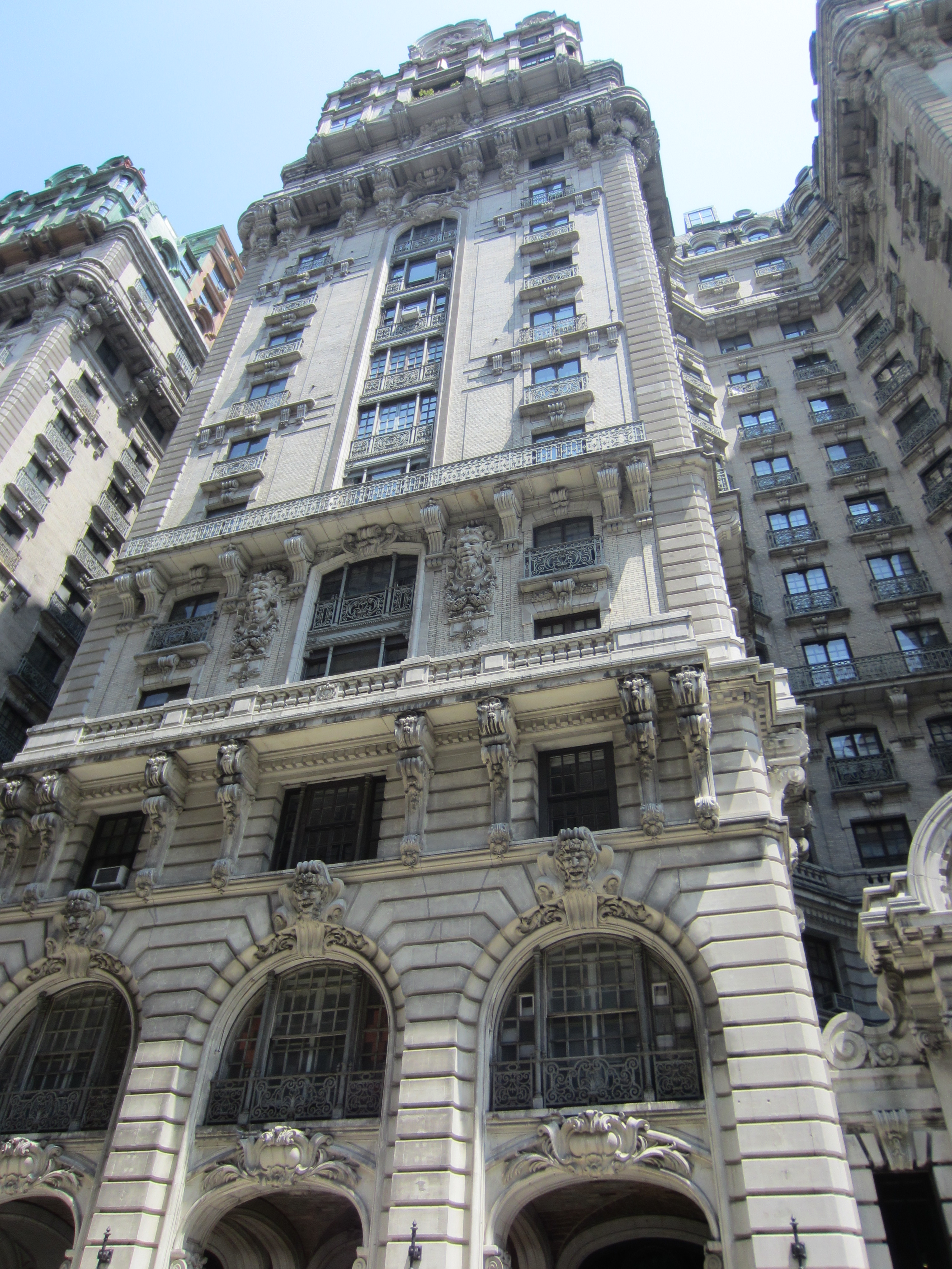 New York City (June 2014)